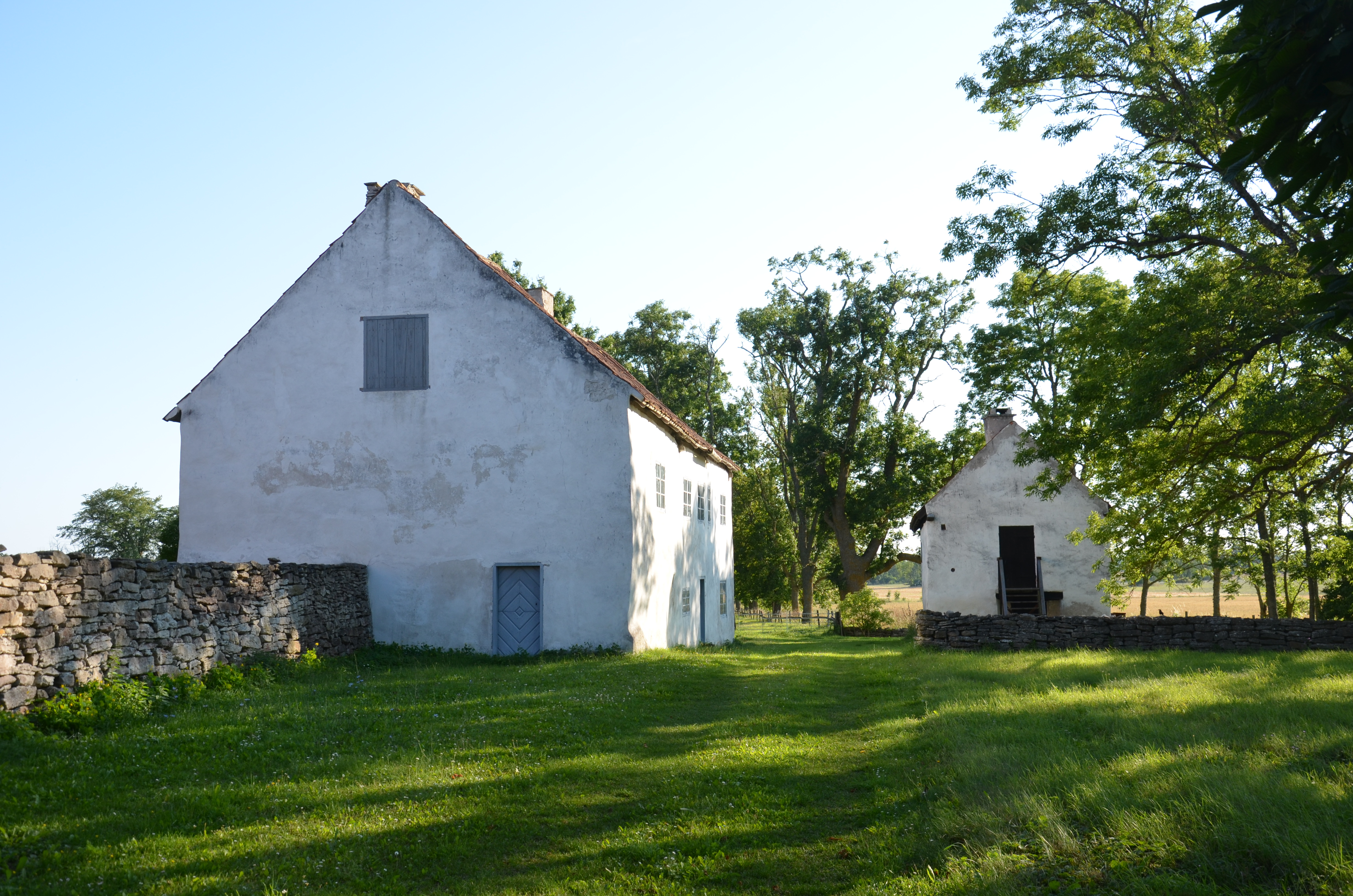 Taklstens gård, Lärbro, gamla manbyggnaden